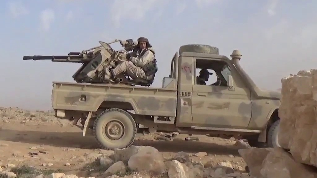 An improvised fighting vehicle armed with a ZU-23 autocannon operated by the Free Syrian Army during clashes with the Islamic State in the eastern Qalamoun Mountains, southern Syria.